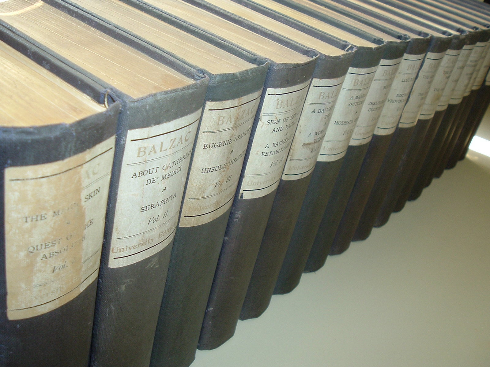 The 16-volume Works of Honoré de Balzac, including the entire Comédie humaine